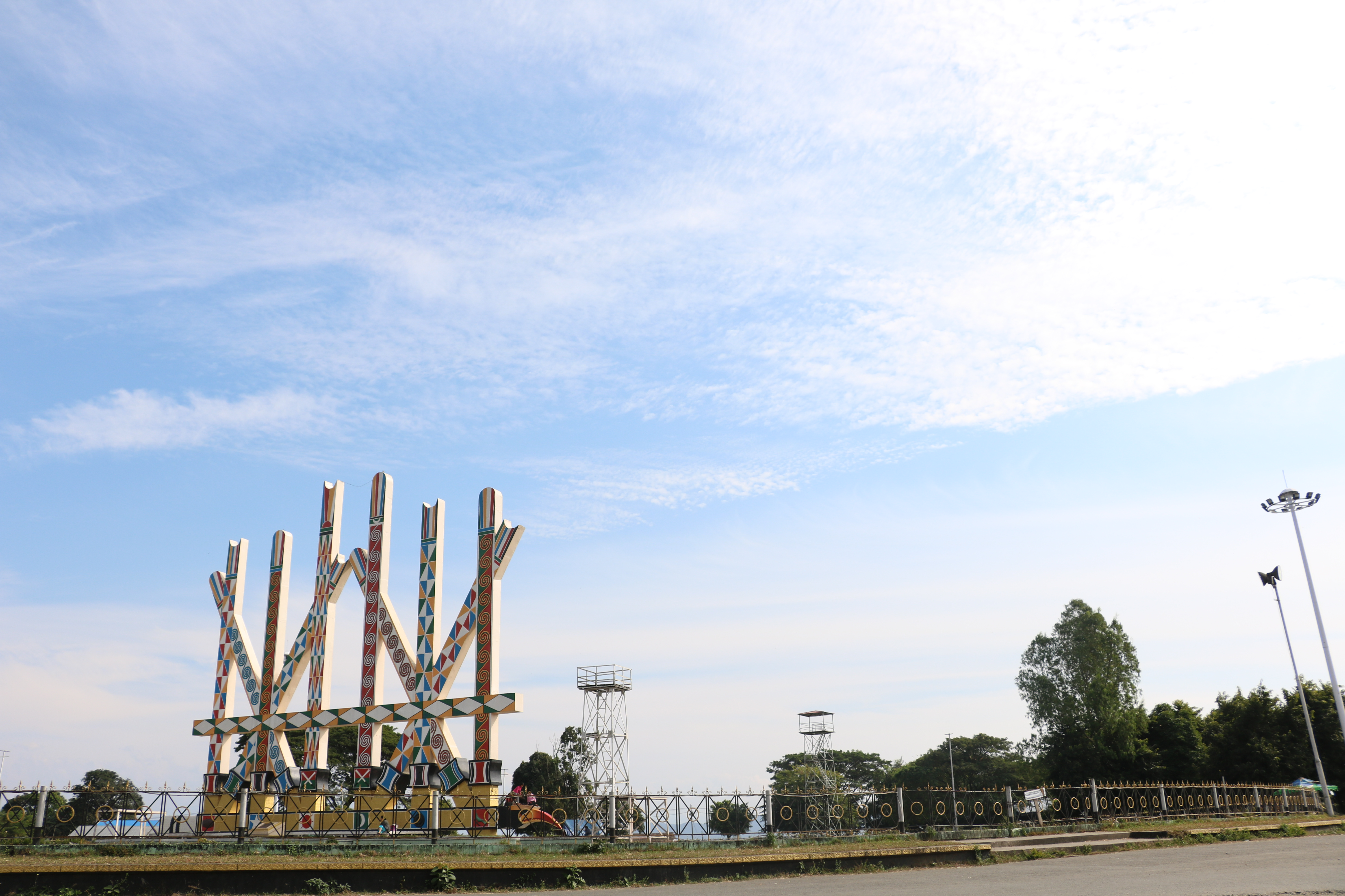 Manaw Park Myitkyina